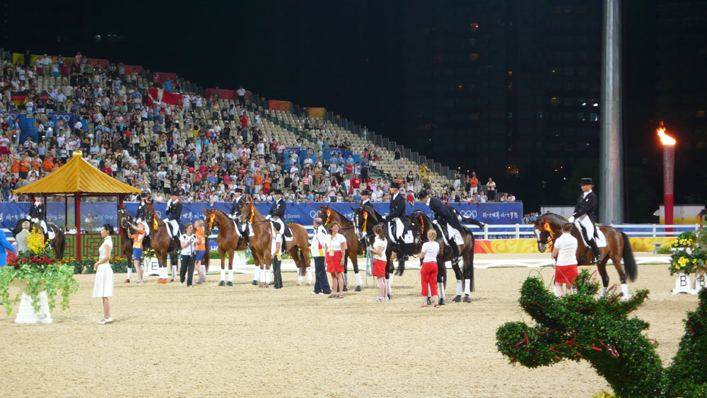 Beijing 2008 Olympic Game - Equestrian Event - Victory Ceremony of Dressge Team Grand Prix.